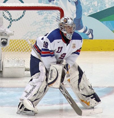 United States goaltender Ryan Miller watches the action against Canada during the 2010 Winter Olympics